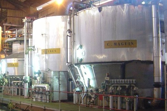 batch vacuum pans in a sugarfactory